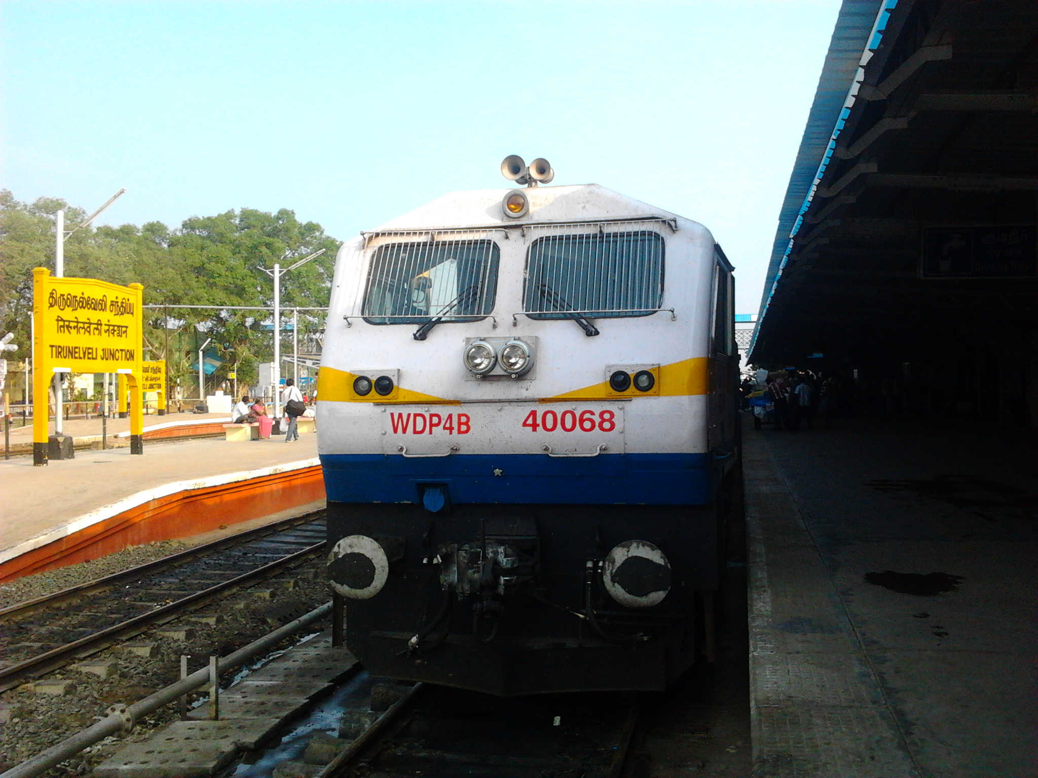 Photoed using Samsung Wave 525.